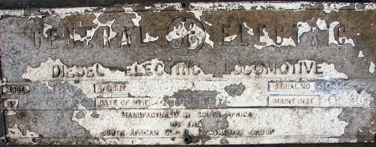 South African Class 36-000 36-025 number plate Builder's Number: GE-DL 40444 Type: GE SG10B Location: Bellville, Cape Town, Western Cape